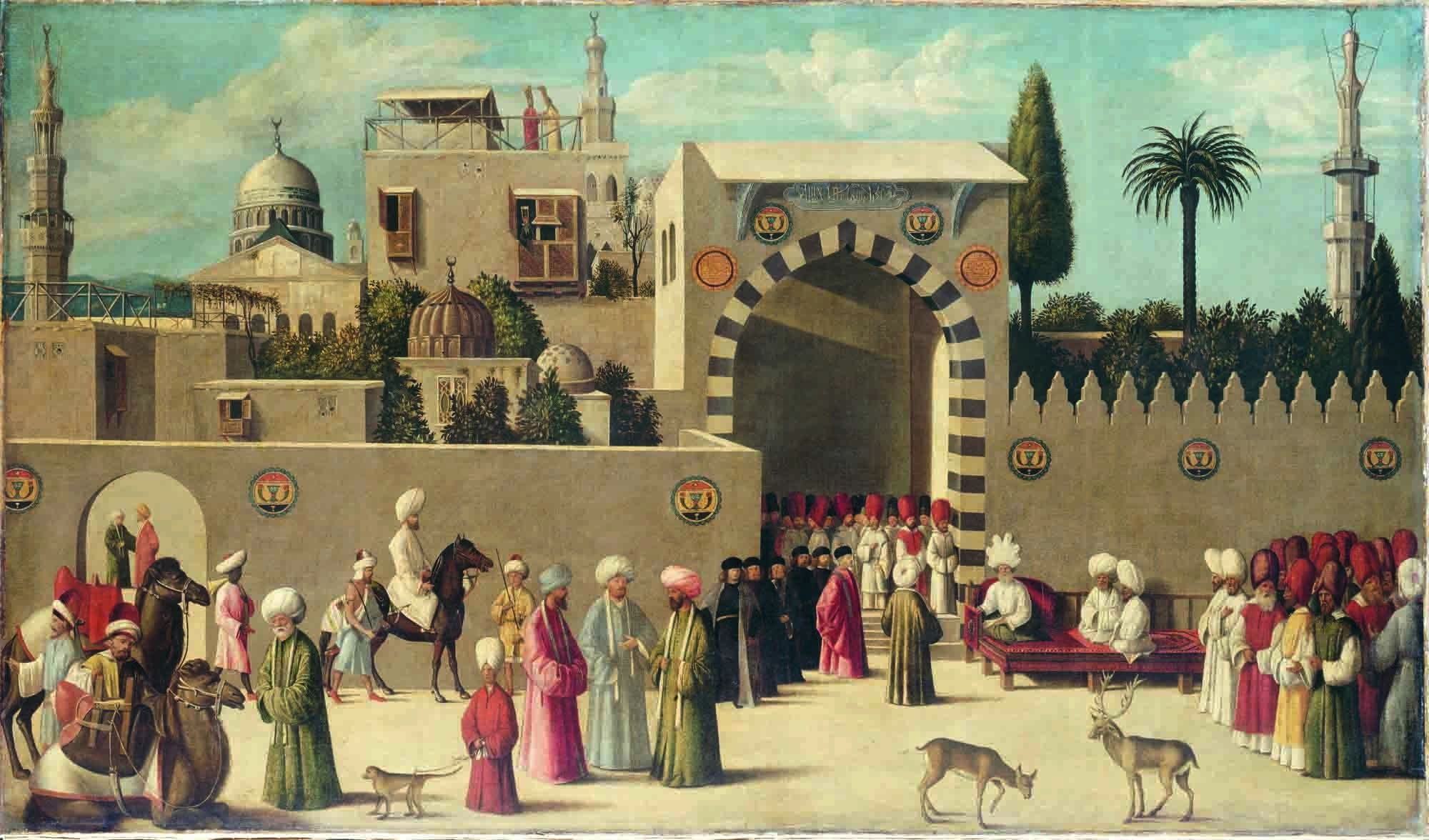 This famous canvas, probably painted in the workshop of Gentile Bellini (d. 1507), depicts the Mamluk governor of Damascus granting and audience to some Venetians at the beginning of the sixteenth century. The very exact description of the Mosque of the Omeyyads and Damascan houses in the picture’s background leads us to suppose that the workshop worked on different studies. The emblems depicted – a cup and two gunpowder vessels – belonged to the sultan Qâ’it Bay. But the date the work was finished: 1511, inscribed under the cavalier, situates this embassy under the reign of Qânsûh al-Ghawrî. The characters appear to be the governor Sîbay, and on the Venetian side Nicolò Malipiero, consul to Damascus that year, or perhaps Pietro Zen, whose face we know from one of Titian’s protraits. This considerable character, who fell to disgrace with the Mamluks because he was involved with the Persian shah Ismâ‘îl, had handed in his accreditation letters in 1508. This is perhaps the moment which is set in the painting. (Press "edit" to read more)